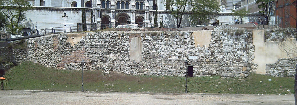 Ruins of the muslim wall of Madrid (Mayrīt, مجريط), Spain. At the Parque del Emir Mohamed I (park), beside the Cuesta de la Vega (street). The wall was built in the 9th century, during the reign of Emir Muhammad I of Córdoba. Behind, the neo-Romanesque crypt of La Almudena Cathedral.